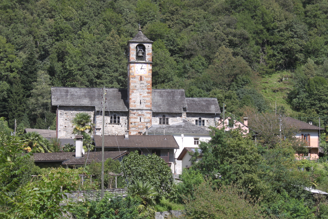 SS. Giacomo e Filippo church in Gordevio.